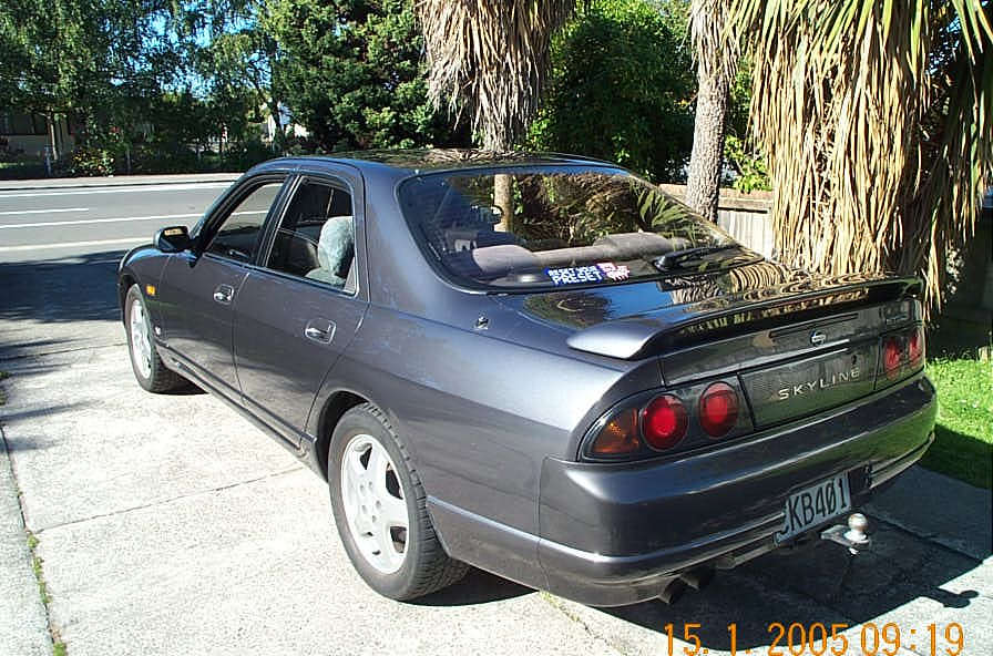 r33 rear